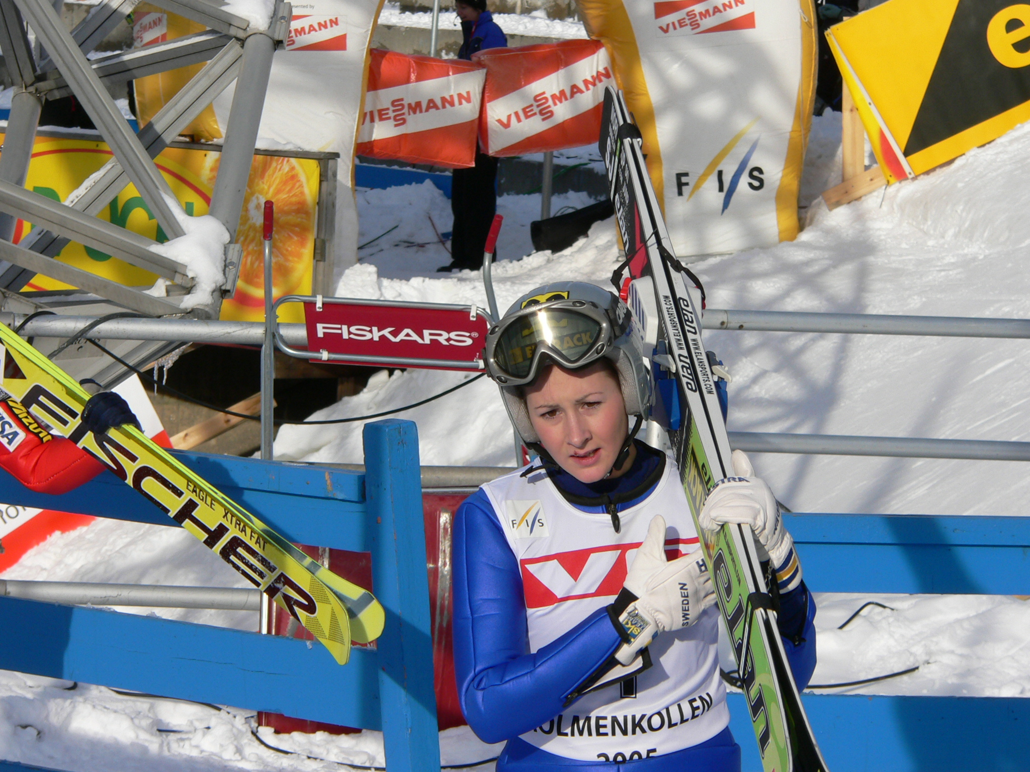 Norwegian, formerly Swedish, ski jumper Helena Olsson Smeby in Holmenkollen